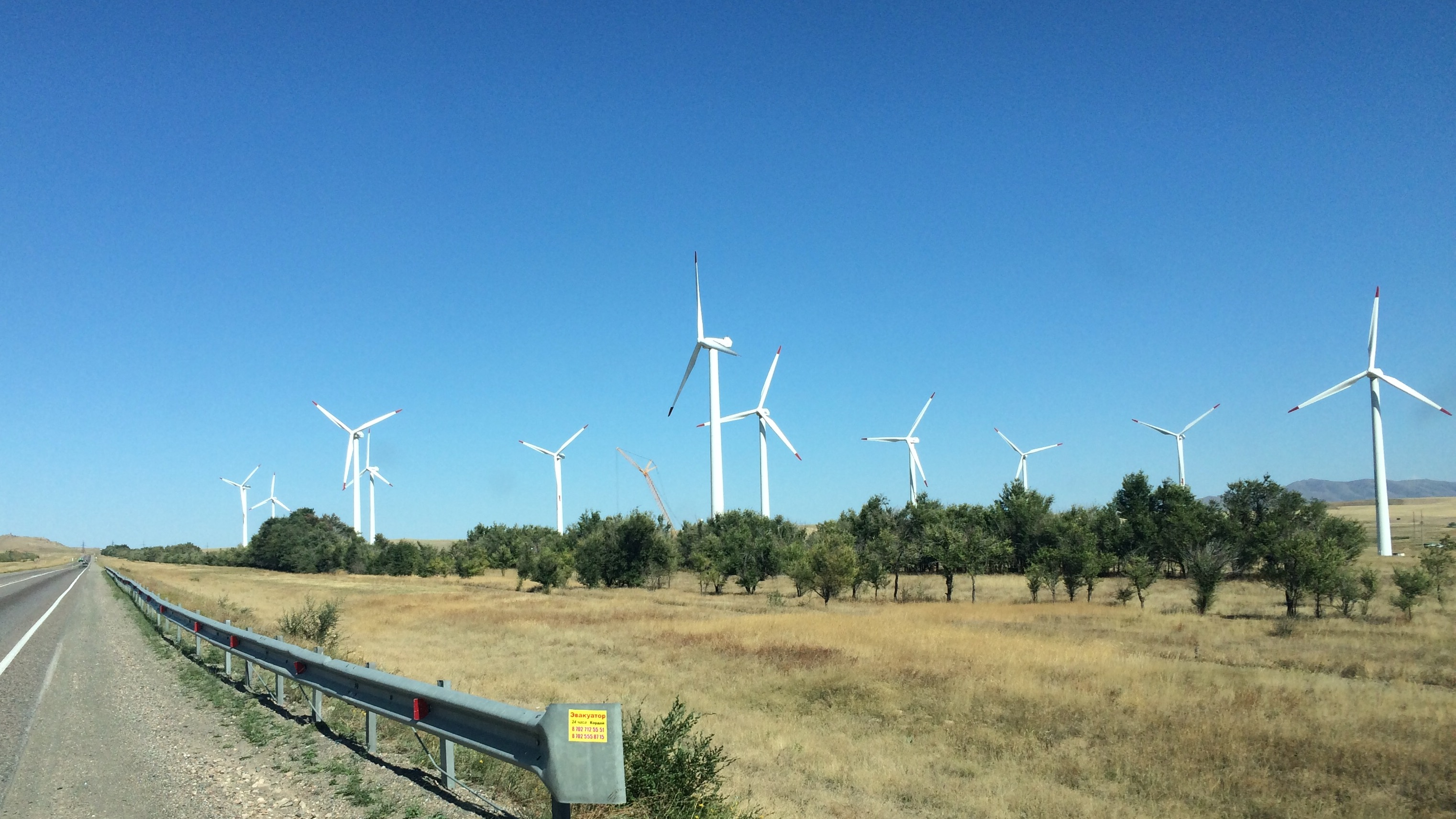 Korday wind farm in the south- east of Kazakhstan